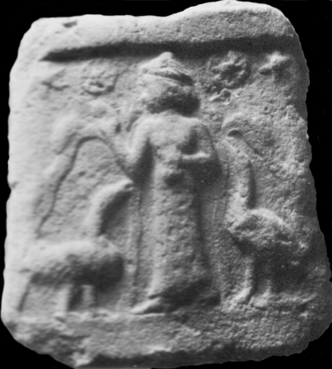 Standing goddess, probably Nanshe. She is accompanied by two geese and holds a vase in hand. Two streams of water and fish emerging from the vessel. Two six-pointed stars and two solar discs are behind the goddess (plate Terracotta). Third Dynasty of Ur.